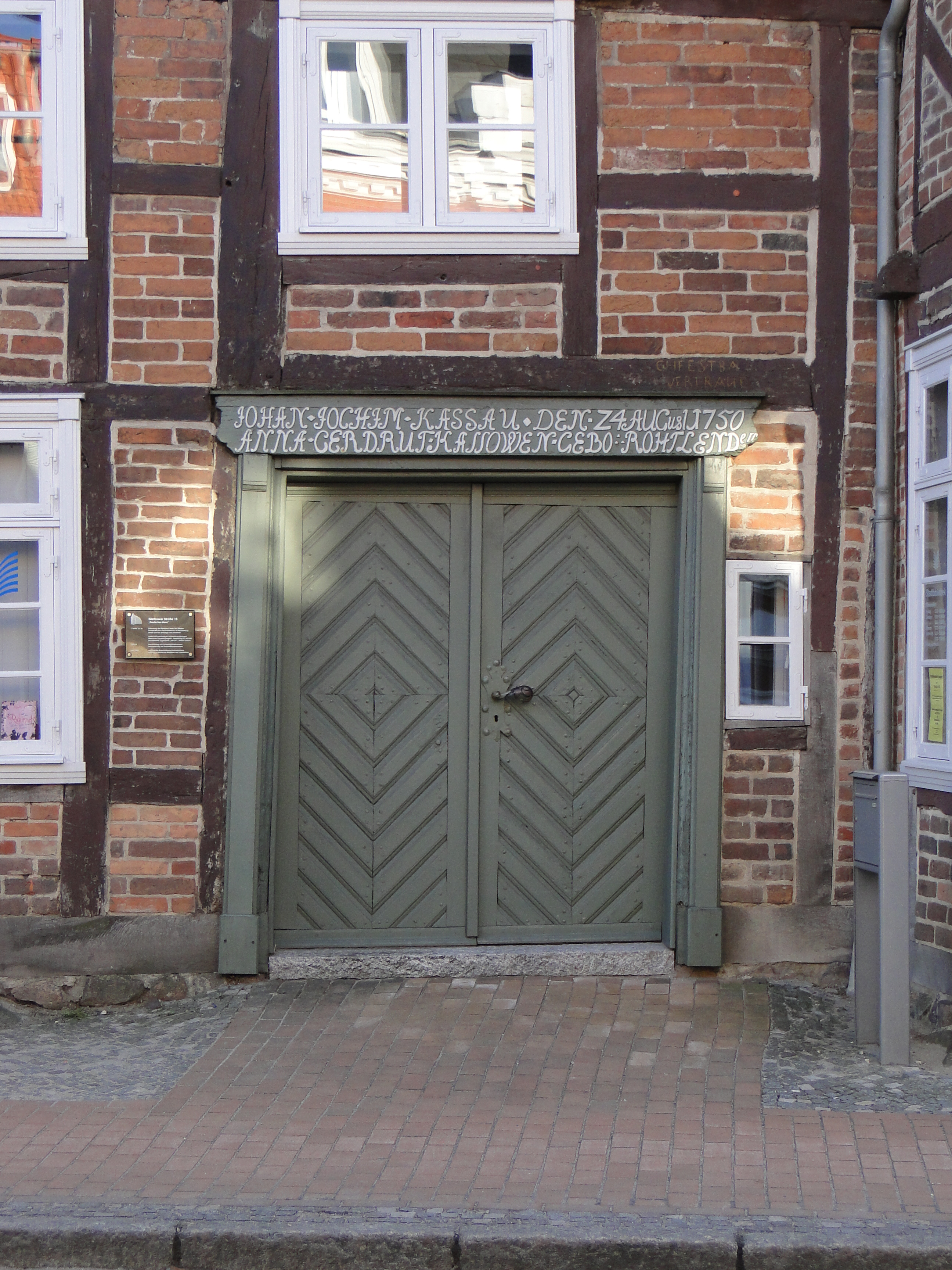 Door at German house in/near Rehna, district Nordwestmecklenburg, Mecklenburg-Vorpommern, Germany